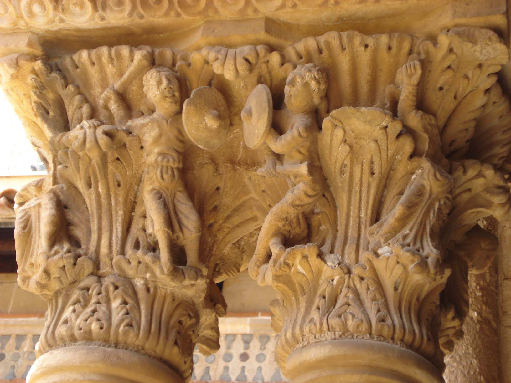 Monreale - duel